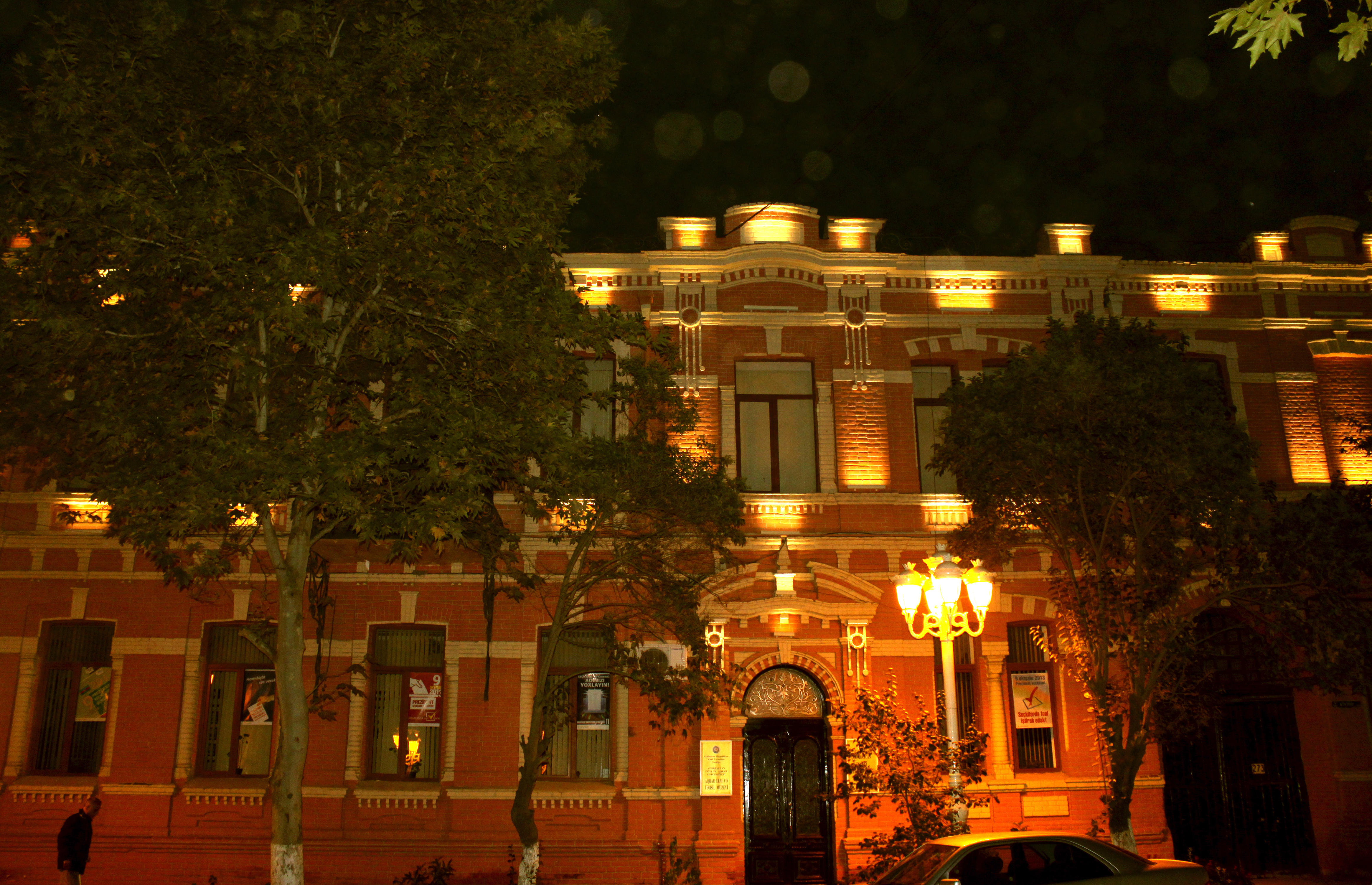 House museum of Israfil Mamedov in Ganja